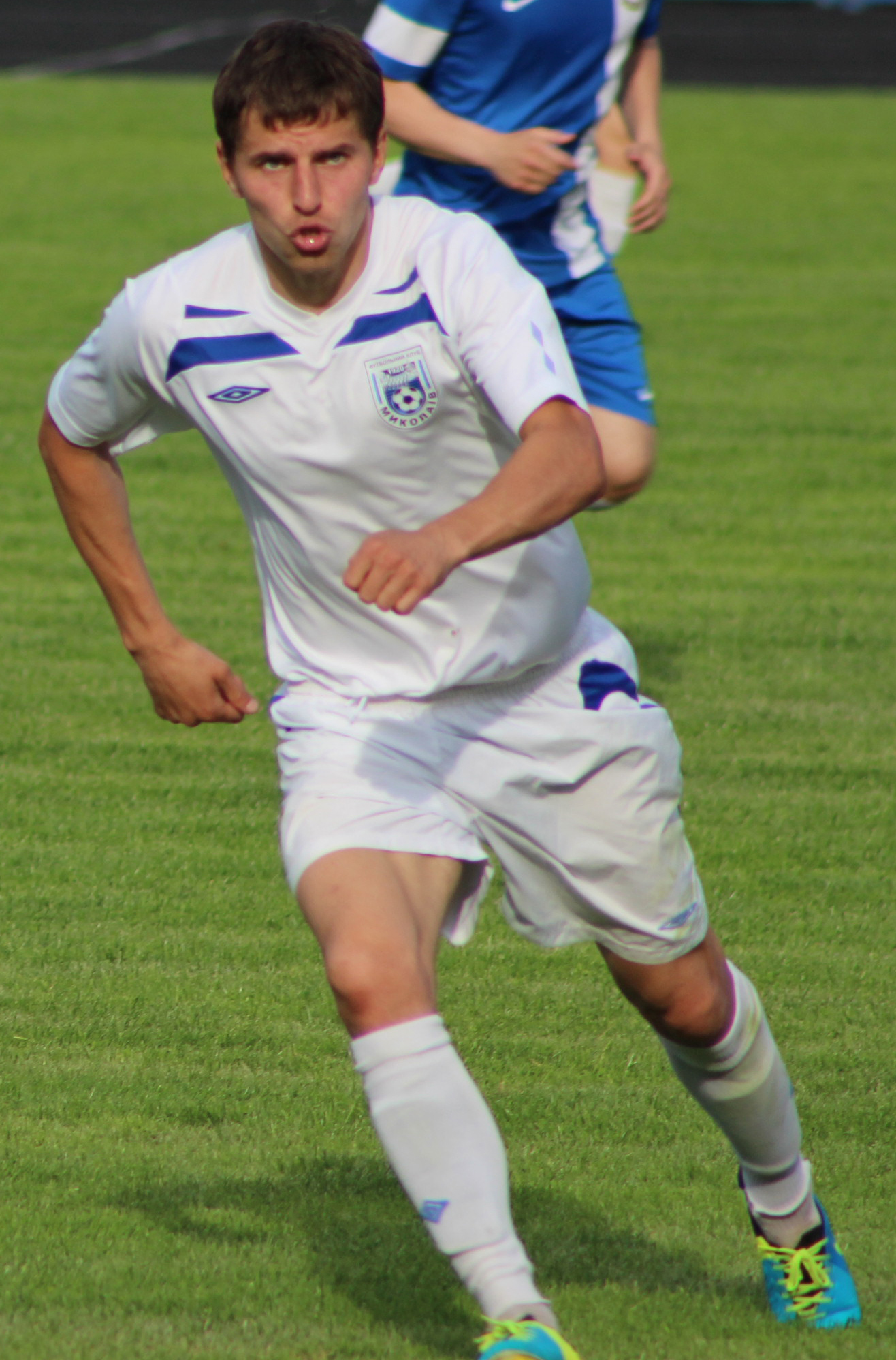 Roman Lutsenko